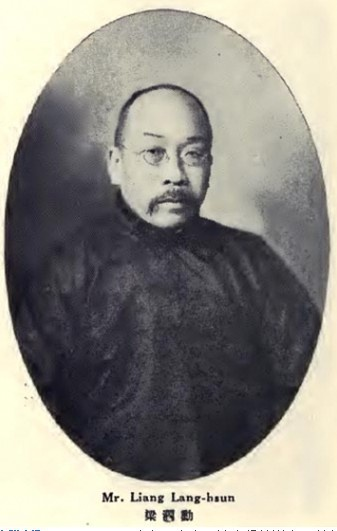 Liang Lanxun (1880-？)